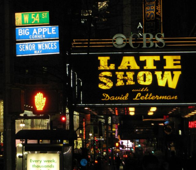 54th Street outside of Ed Sullivan Theater